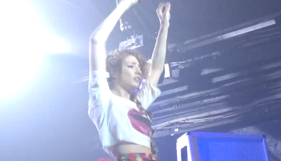 Phone camera pic of Nicola Roberts at G-A-Y. Only close-up I have, quality is once again bad so im not sure if it will be used. I spent a while retouching the image, cropped sides and brightened it up a bit.